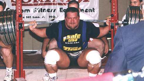 Kirk Karwoski, squatting over a thousand pounds.